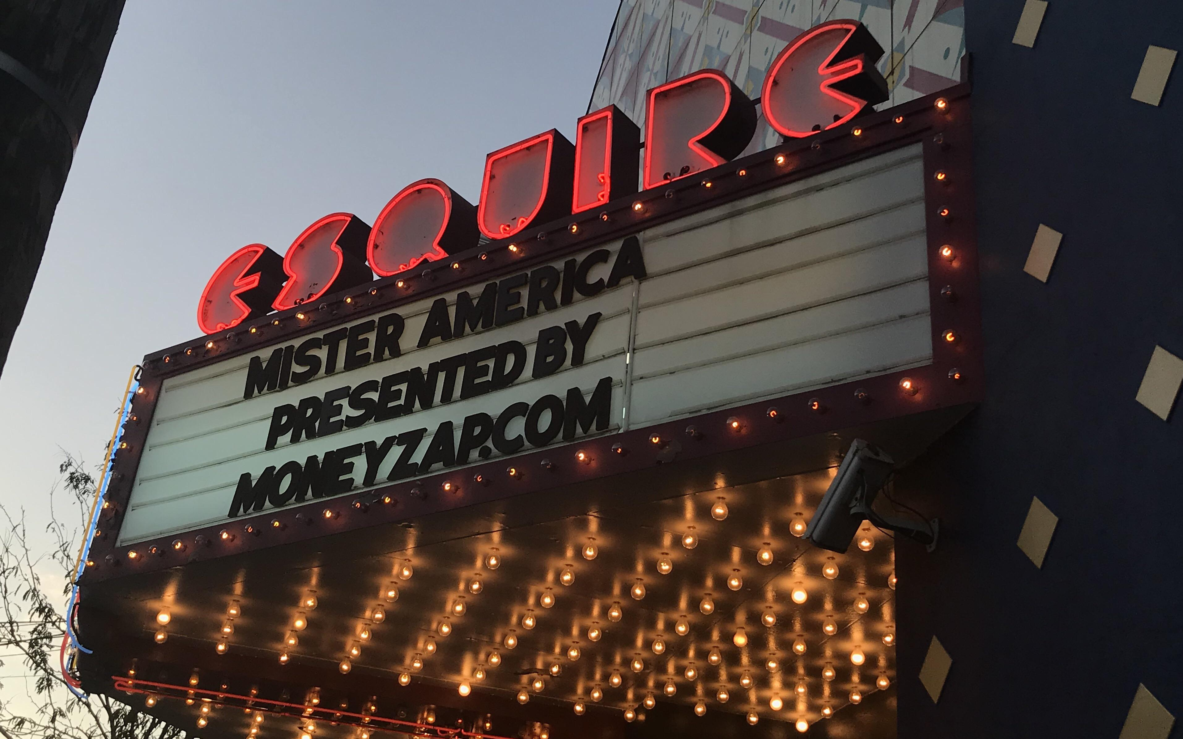 Mister America marquee at the Esquire Theater in Clifton, Ohio, United States.